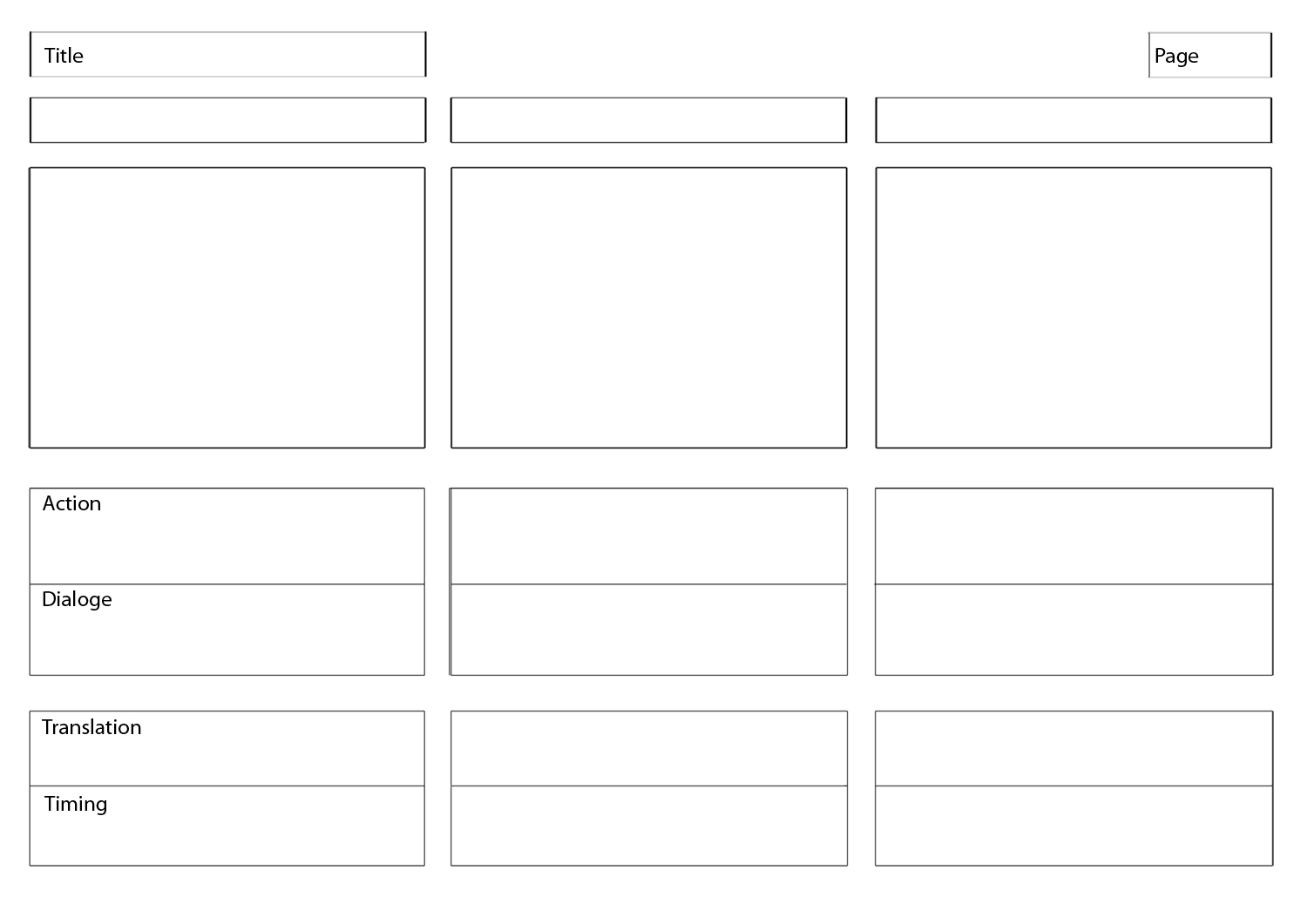 storyboard template example.